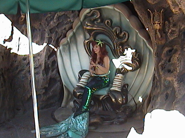 Former meet-and-greet area near King Triton's Fountain, replaced by Pixie Hollow. The shell rotated so Ariel, from The Little Mermaid, could vanish and reveal as a mermaid - without walking.